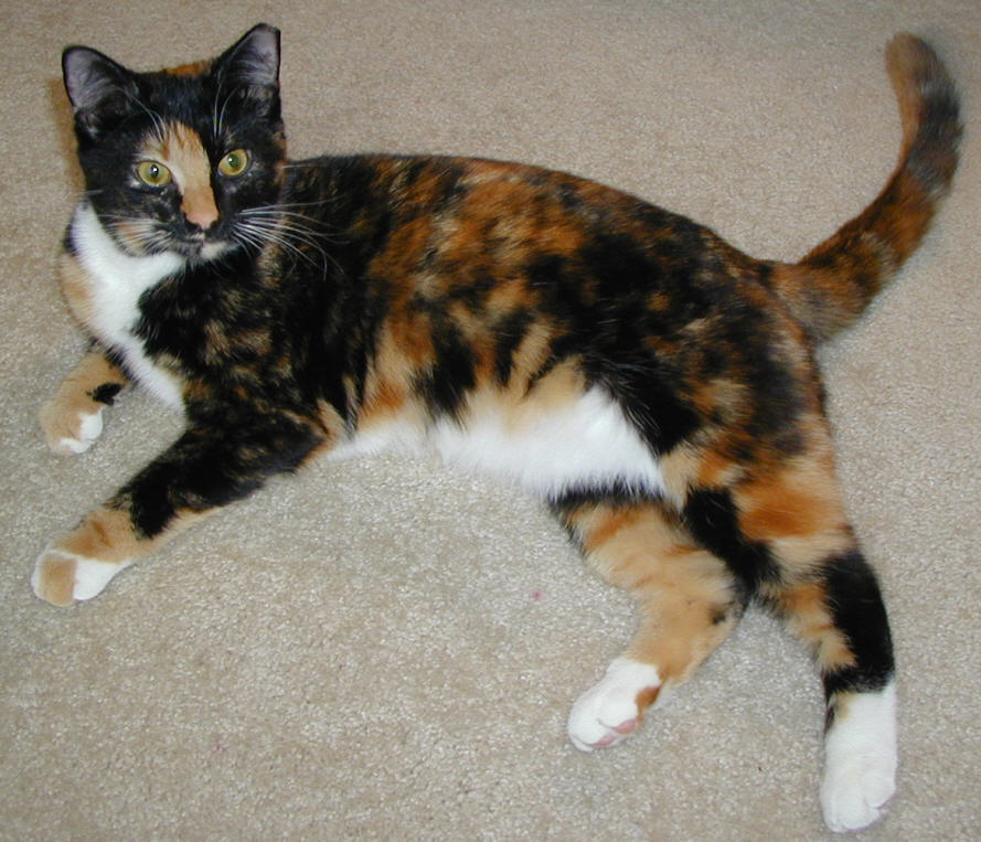 Curly cat